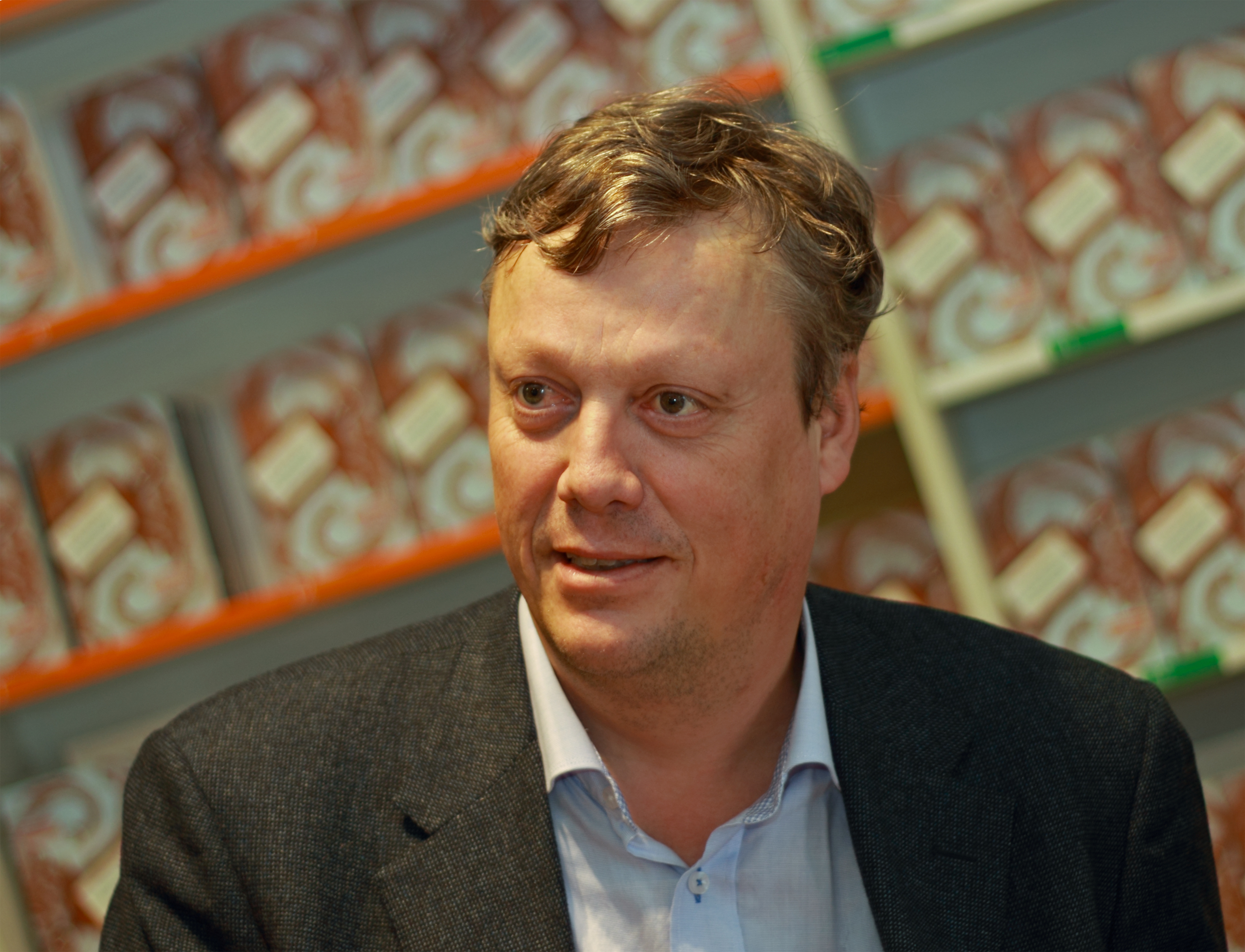 Swedish author Jonas Jonasson signs books in Cologne.